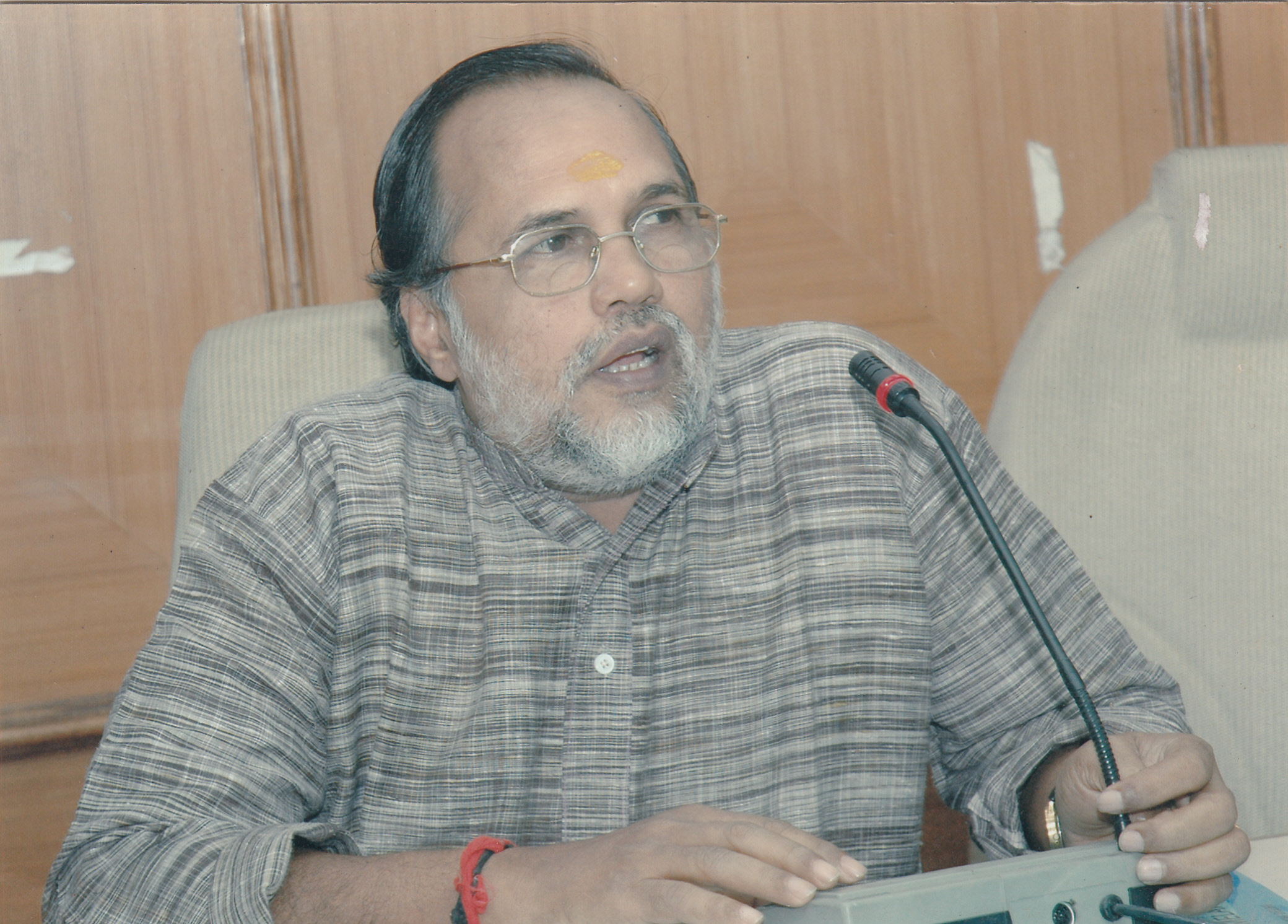 Photo of Paipra Radhakrishnan